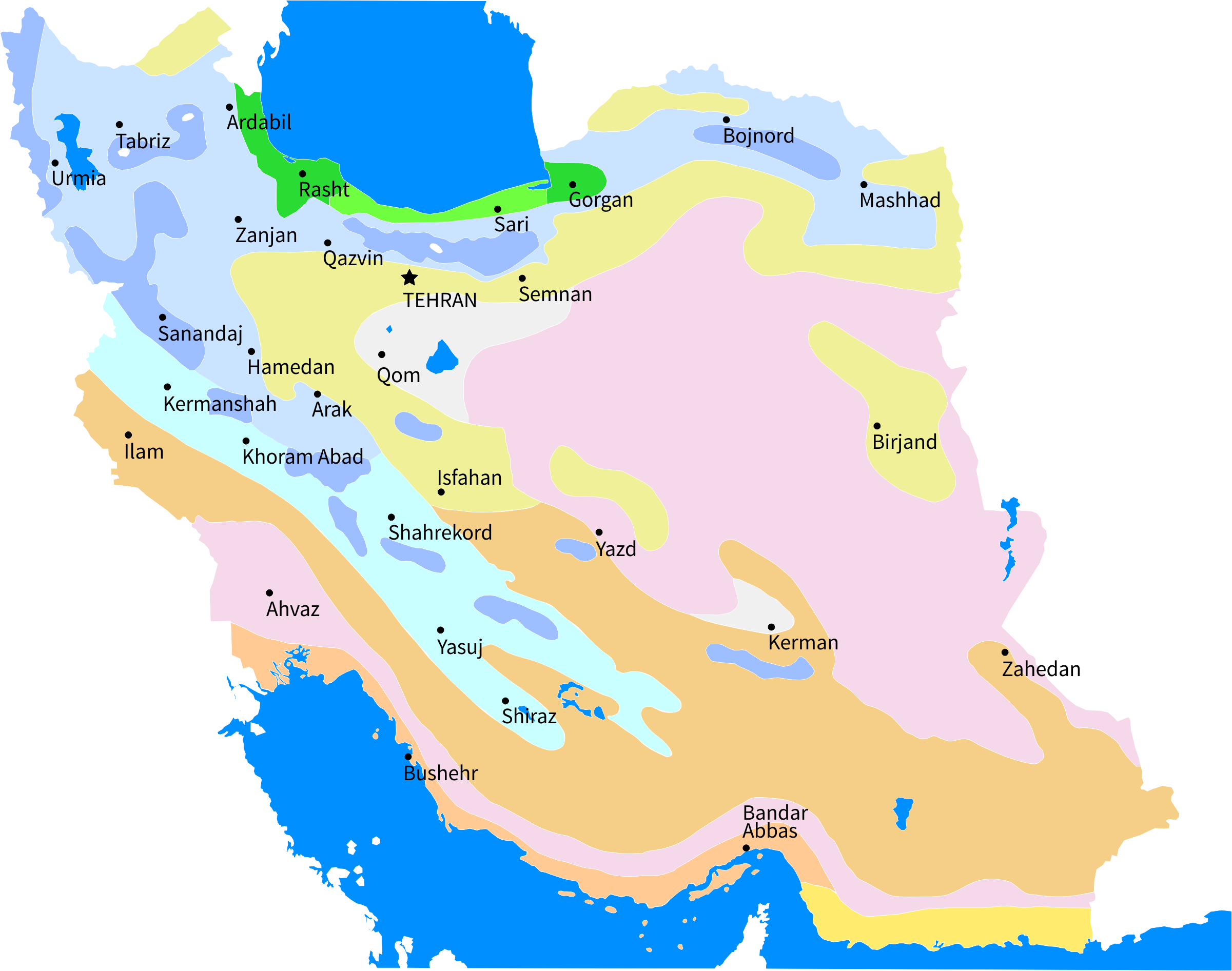 The map shows different climates of Iran. Caspian Mild and Wet Caspian Mild Mediterranean with Spring Rains Mediterranean Cold Mountains Very Cold Mountains Cold Semi-Desert Hot Semi-Desert Dry Desert Hot Dry Desert Hot Coastal Dry Coastal Dry